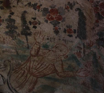 Saint_Nicholas_Church_in_Diporo_FrescoAthanasius_Church_in_Panagia_Fresco